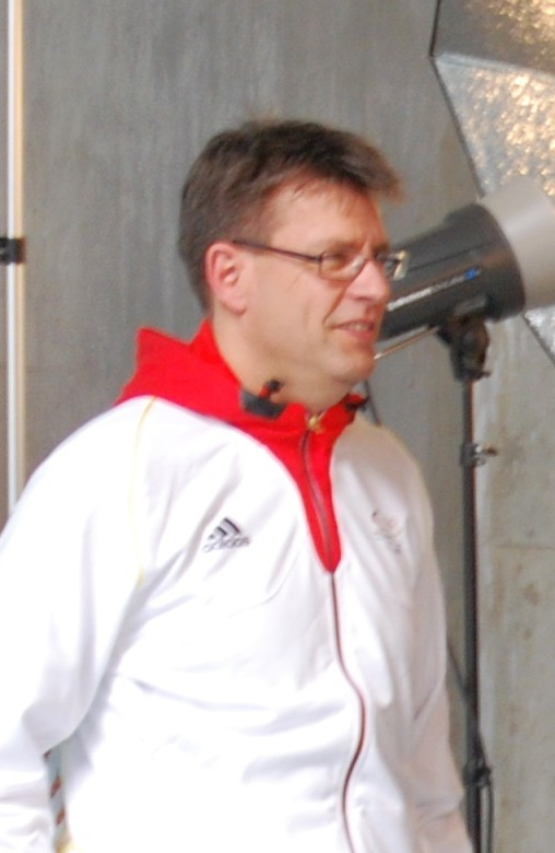 Outfitting the Olympic team of Germany 2012